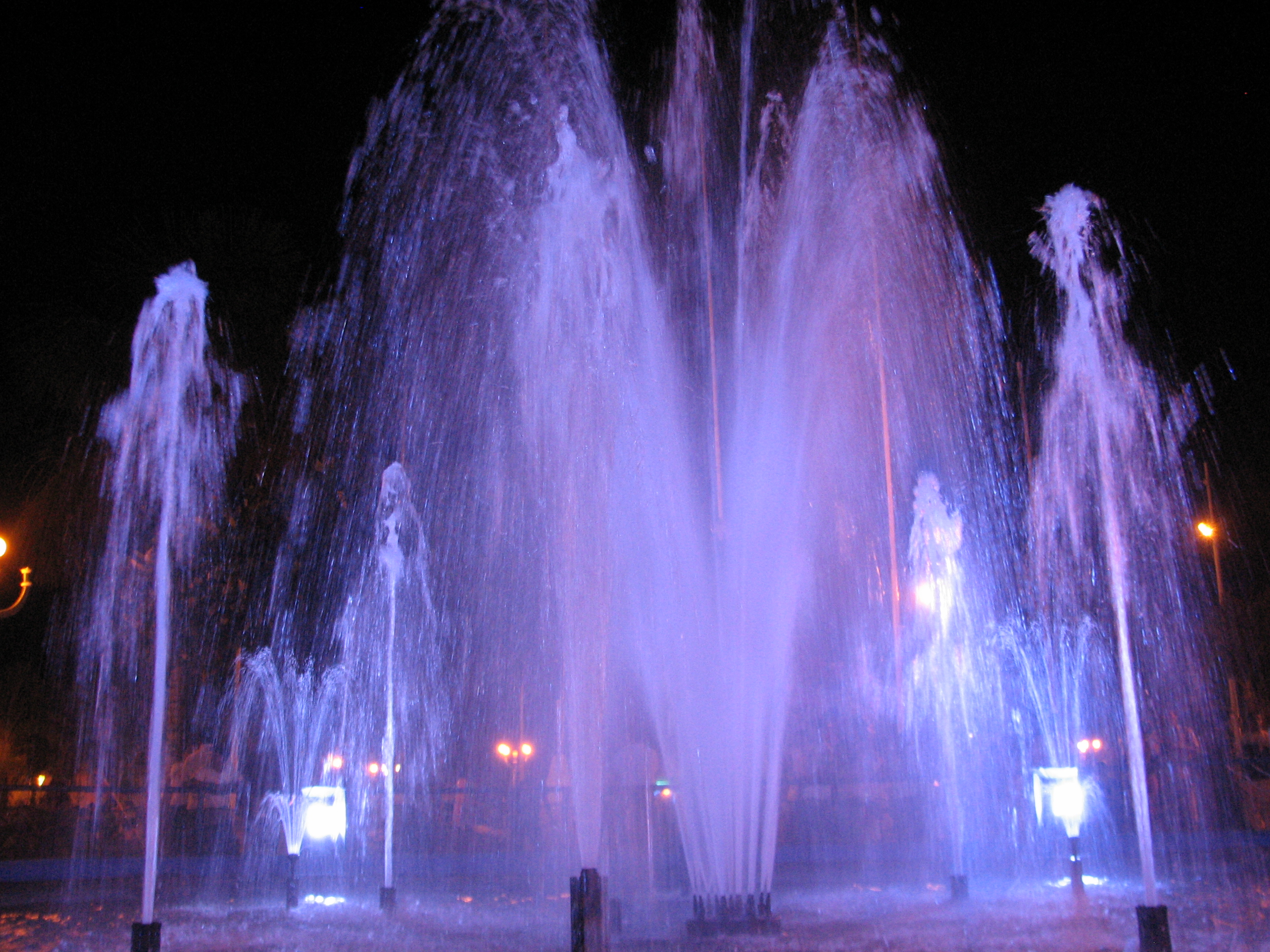 Fountain by night on central plaza in Iquitos/Maynas/Loreto, Peru.